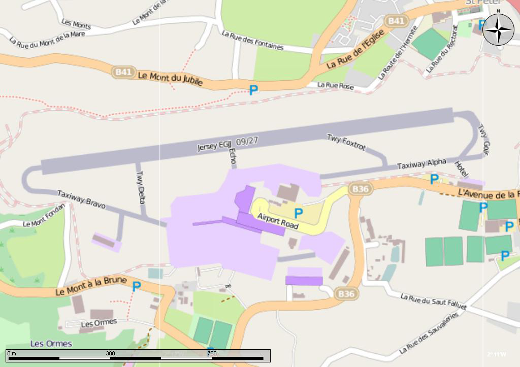 Open Street Map of the Jersey Airport. Cropped from the Marble program and saved using GIMP.